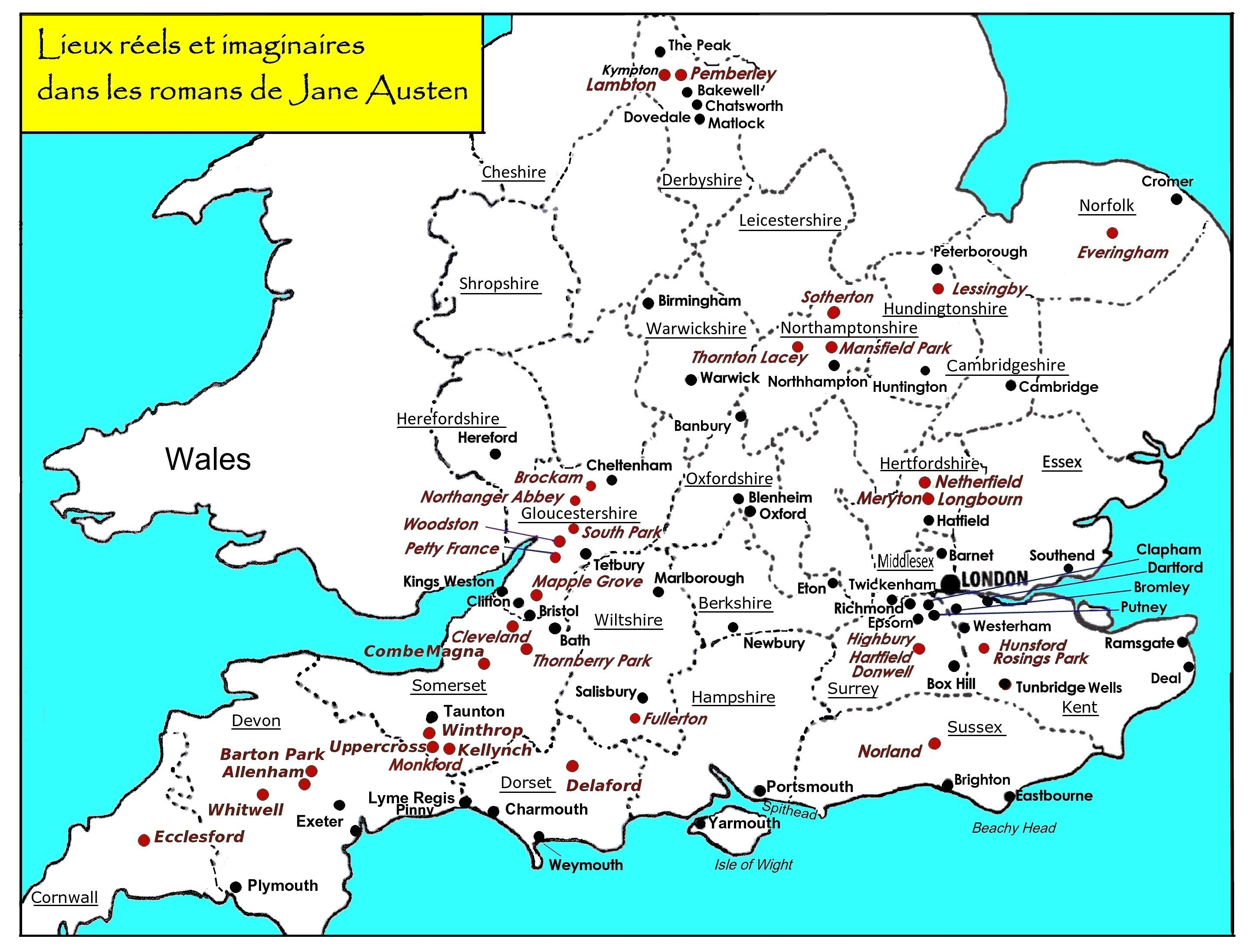 Map of real (black) and fictional (red) locations in England in Jane Austen's six novels.